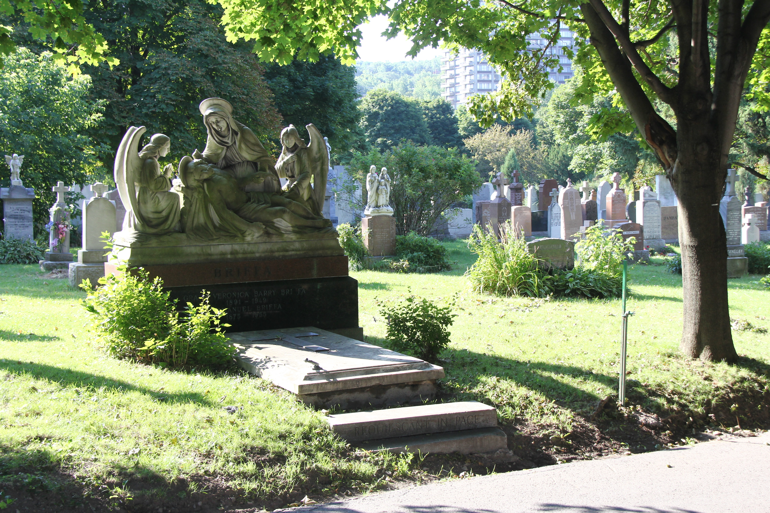 Emmanuel Briffa’s (1875-1955) tombstone, Notre-Dame-des-Neiges Cemetery (I1107), Montreal.